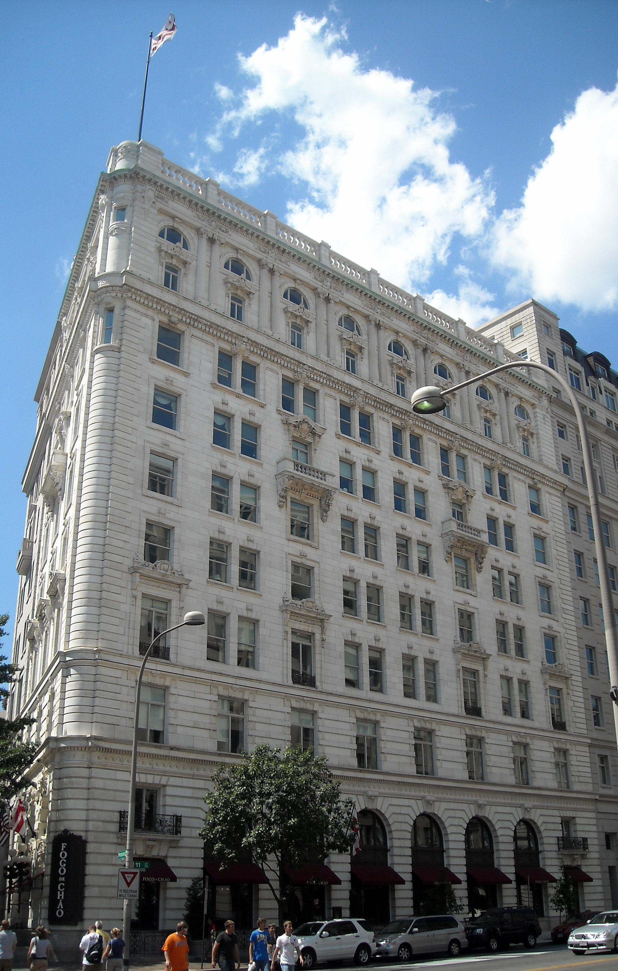 Evening Star Building, once home to the now-defunct Washington Evening Star newspapaer, at 1101 Pennsylvania Avenue, NW in Washington, D.C. The building is a contributing property to the Pennsylvania Avenue Historic District, which stretches from the White House to Capitol Hill.